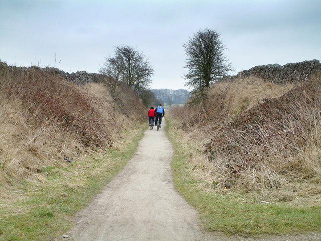 High Peak Trail. Once a railway line, the High Peak Trail is now used by cyclists and walkers to enjoy the peace of the countryside.